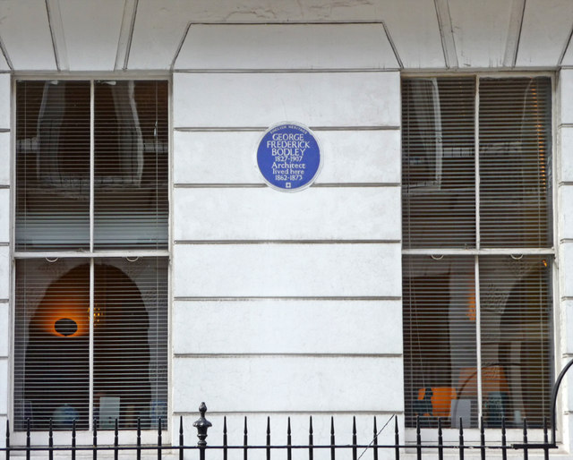 Blue Plaque for George Frederick Bodley, Harley Street This blue plaque for George Frederick Bodley is almost opposite No. 104 Harley Street.